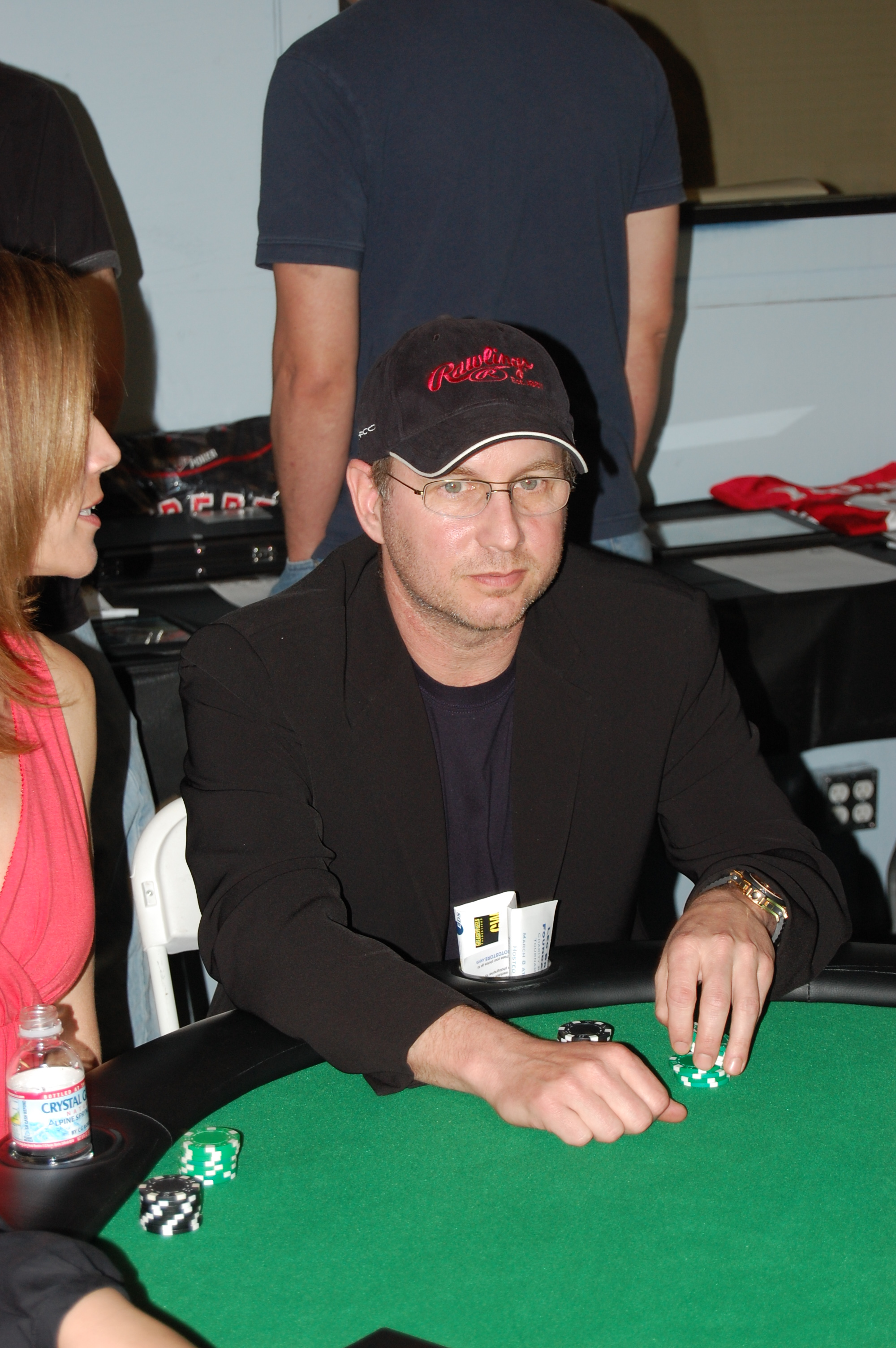 Roy "The Oracle" Winston at Bay 101 Shooting Star. Fresh off the golf course. Look for his interview as well on